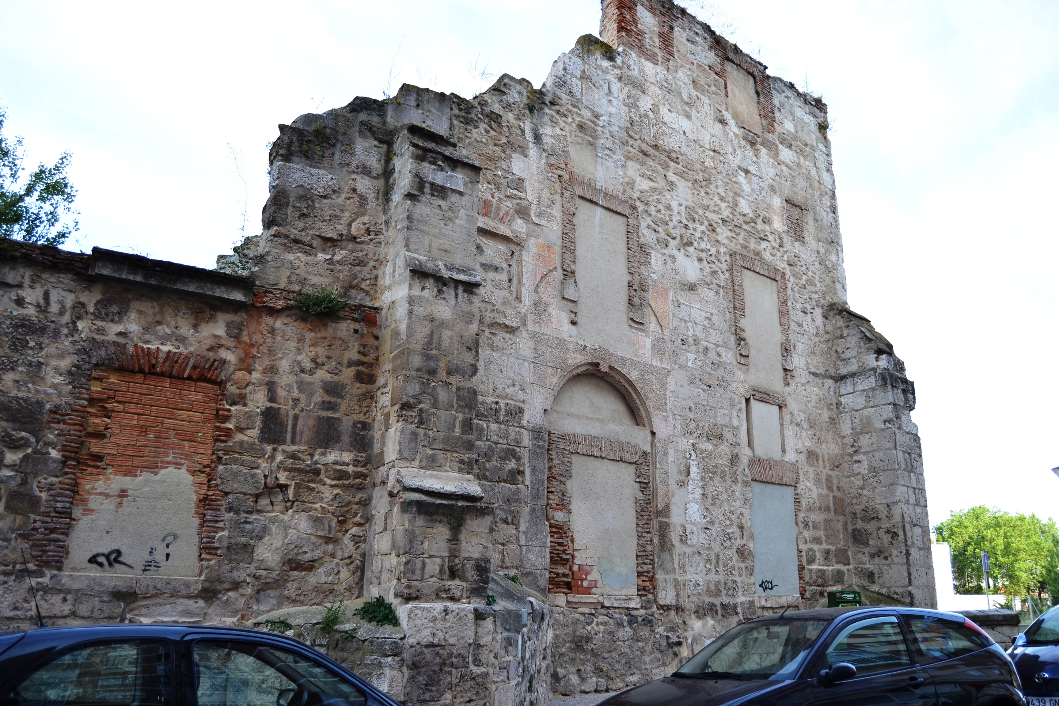 Uno de los muros.